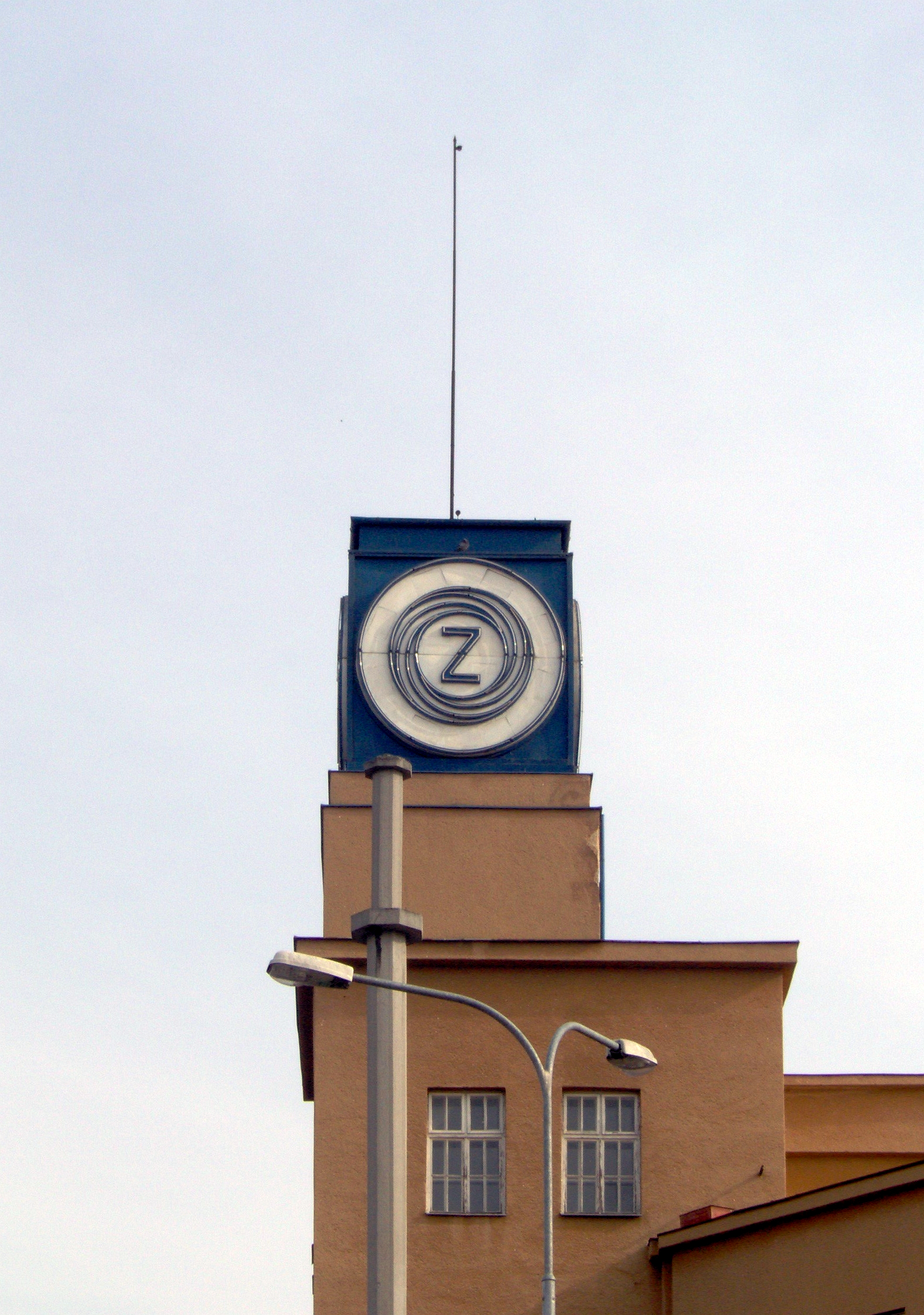 Tower with logo of Zbrojovka Brno, Brno, Czech Republic